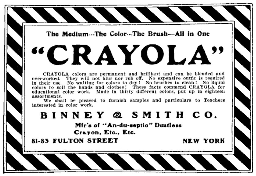 Early Crayola Ad from Mar 1905 substantiates both the fact that they had 18 different boxes for sale at that time and that they had 30 crayon color that early.